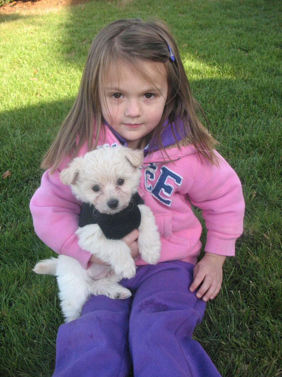 Girl sitting in Central Park, New York City